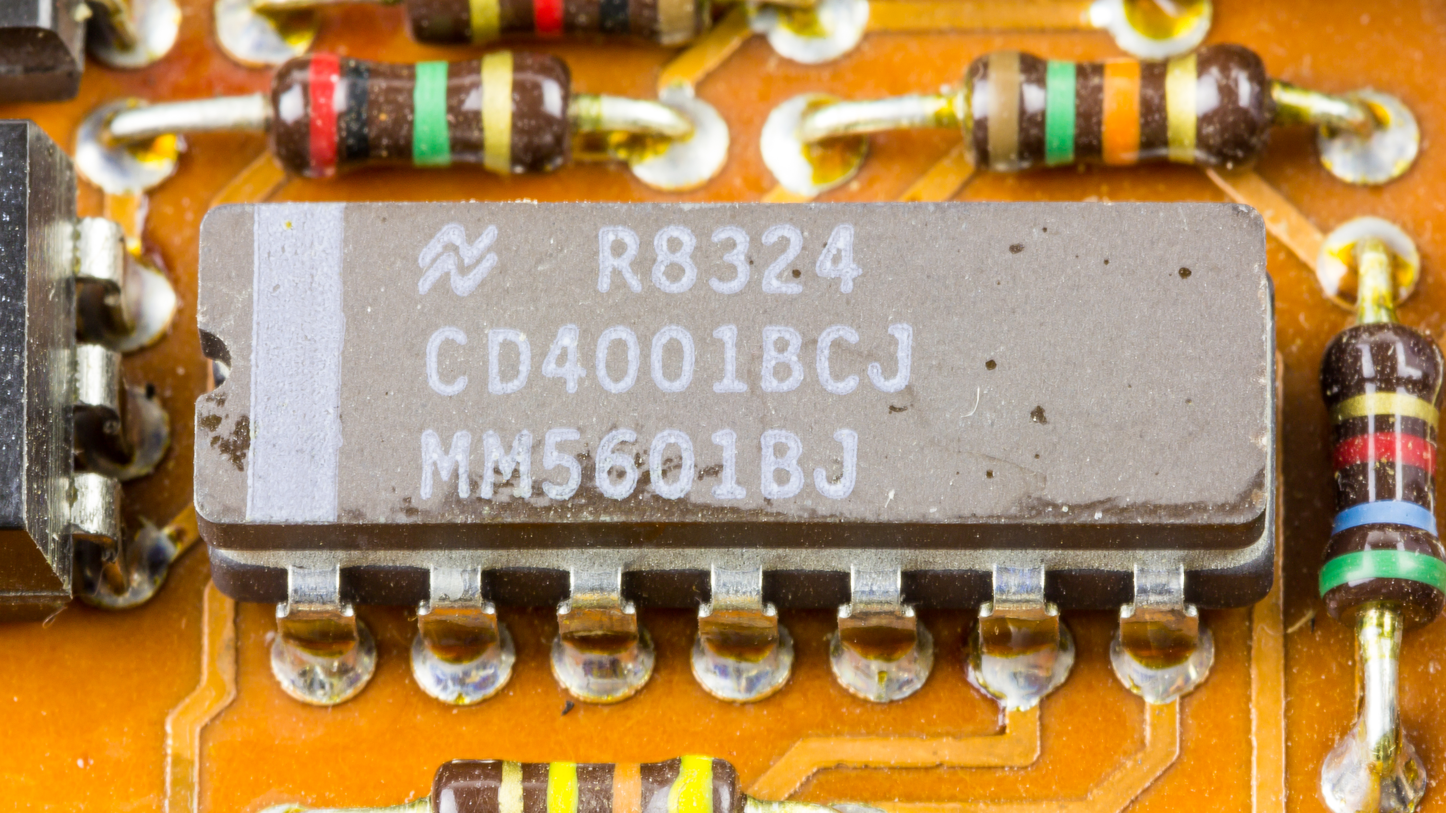 ANT Nachrichtentechnik DBT-03 - National Semiconductor CD4001BCJ - Quad 2-Input NOR Buffered B Series Gate